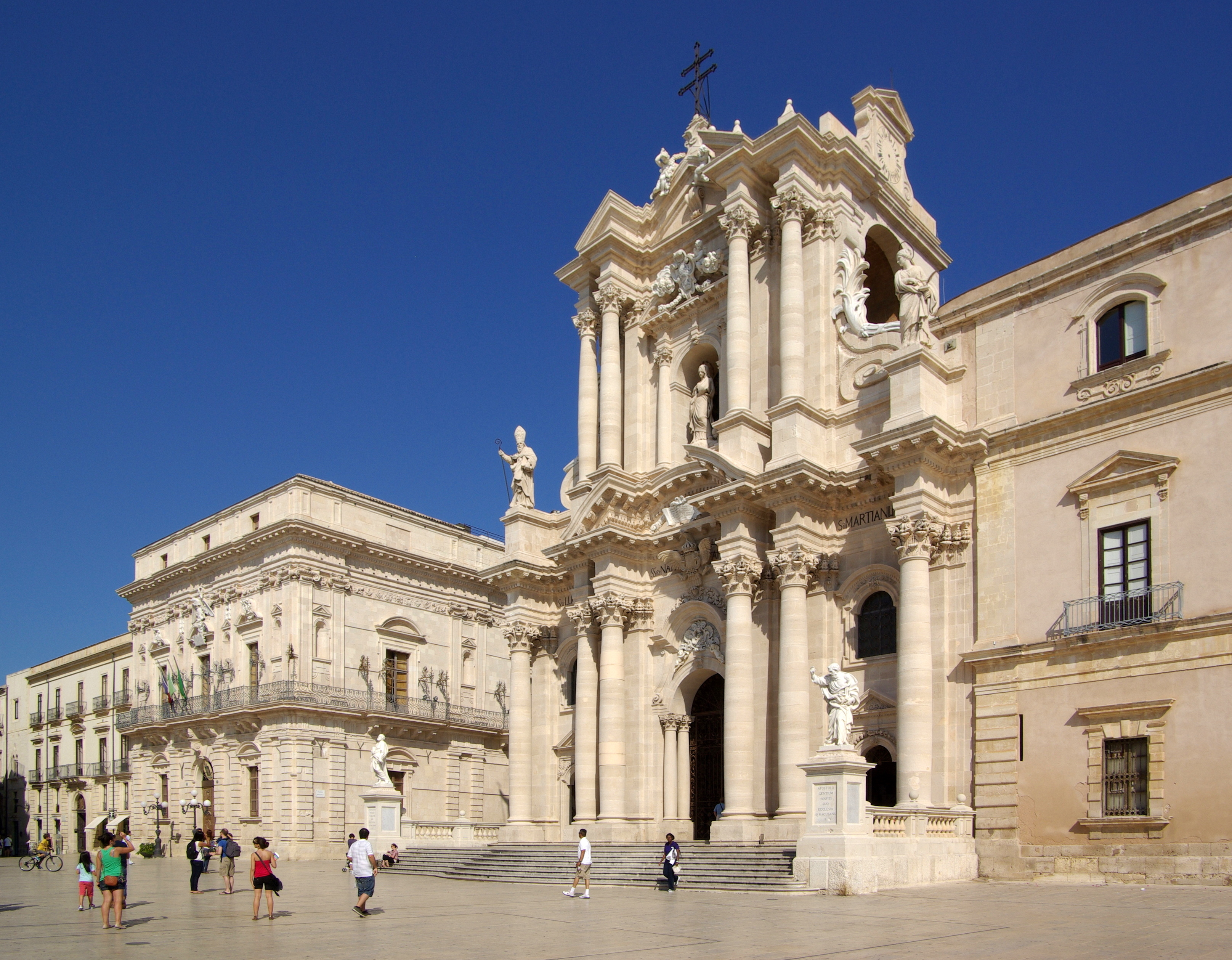 Italy, Sicily, Syracuse, cathedral Santa Maria delle Colonne